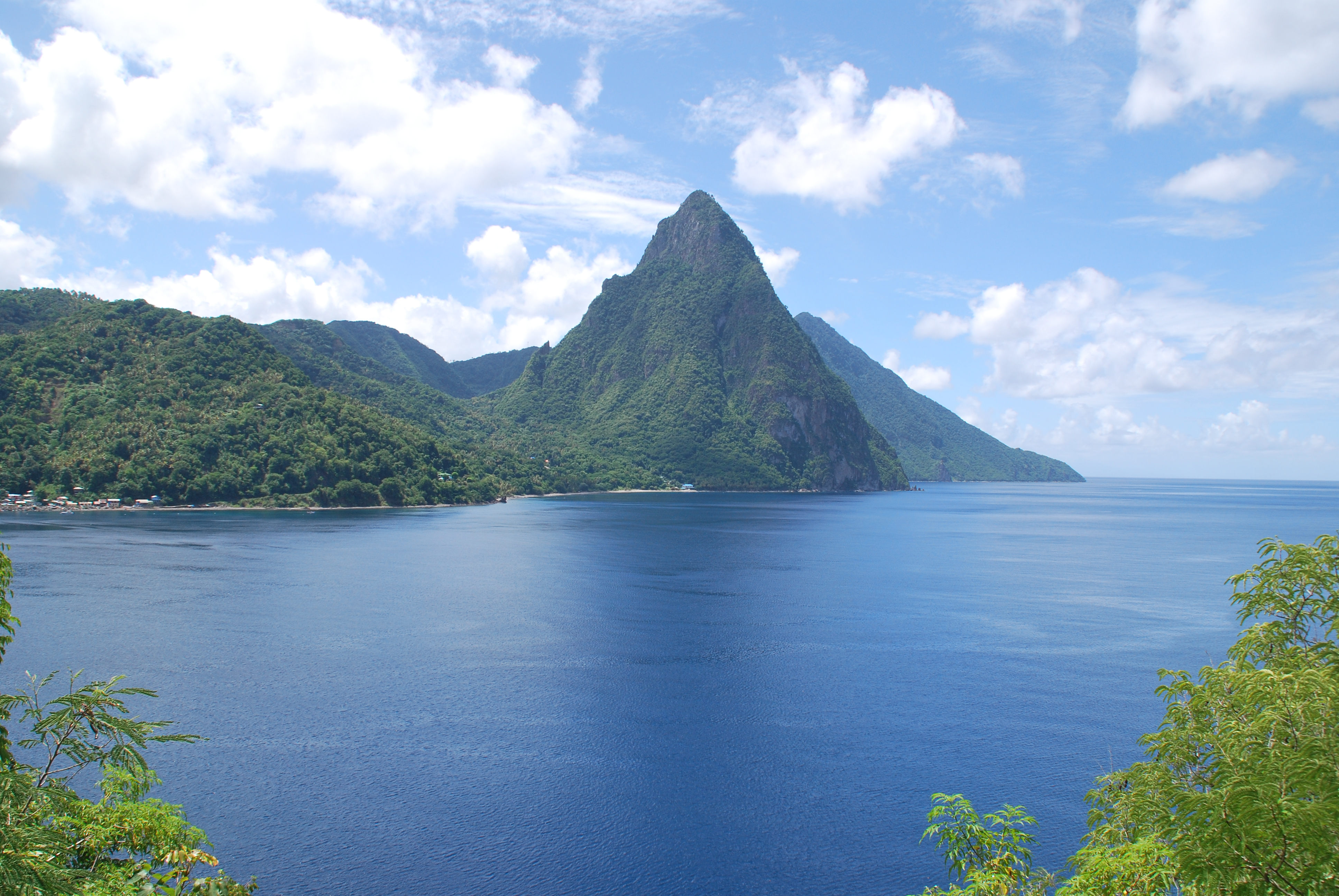 Petit Piton, St. Lucia. Gros Piton in the background.